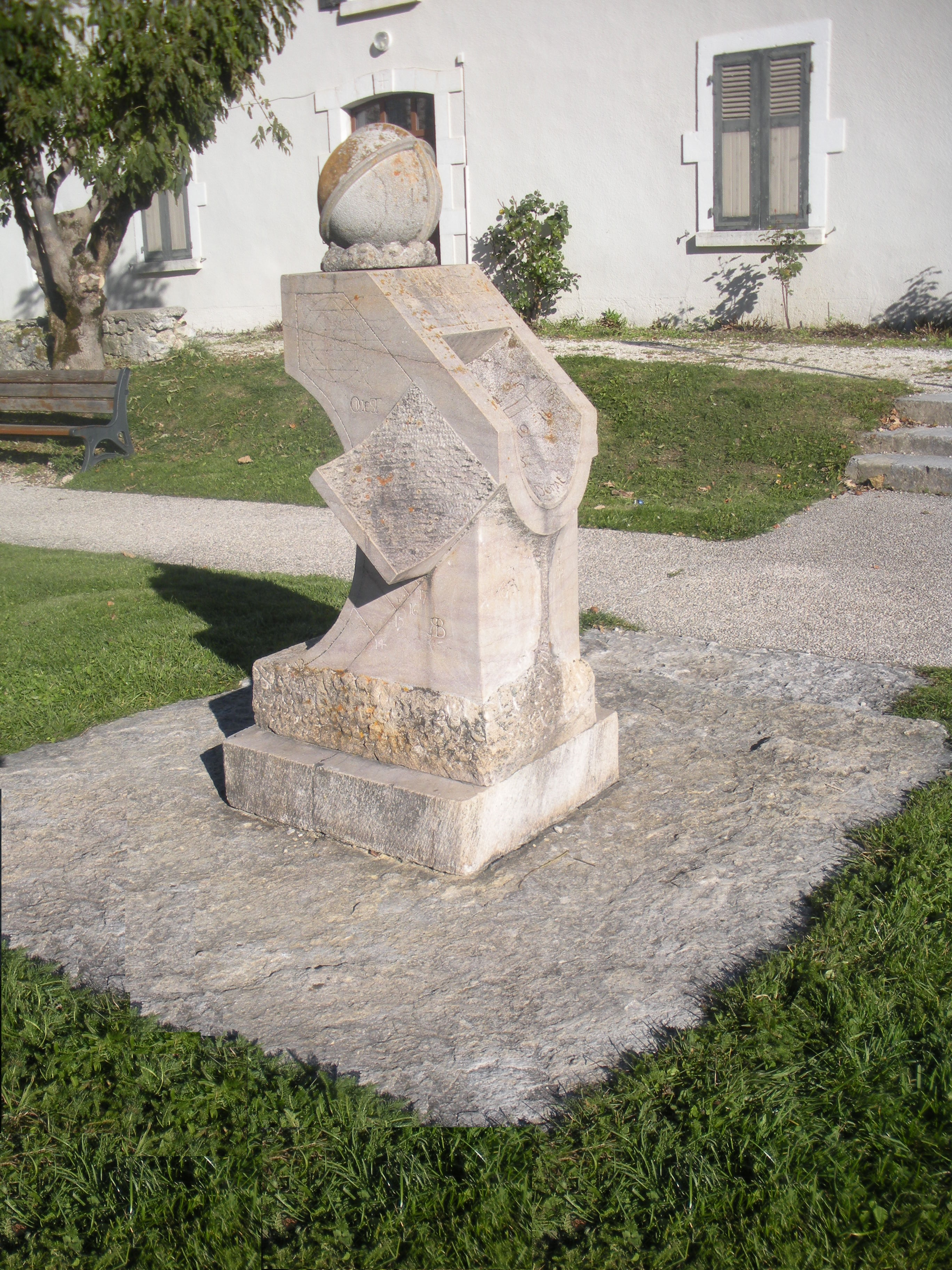 Multiface dial. A globe sit on the top of sundials. Directing South there is a polar dial without gnomon who was lost and on the bottom a scaphe and the edges of the half-cylinder are the gnomons. At East and West there are two vertical sundials, again here the edges of the stone are the gnomons.